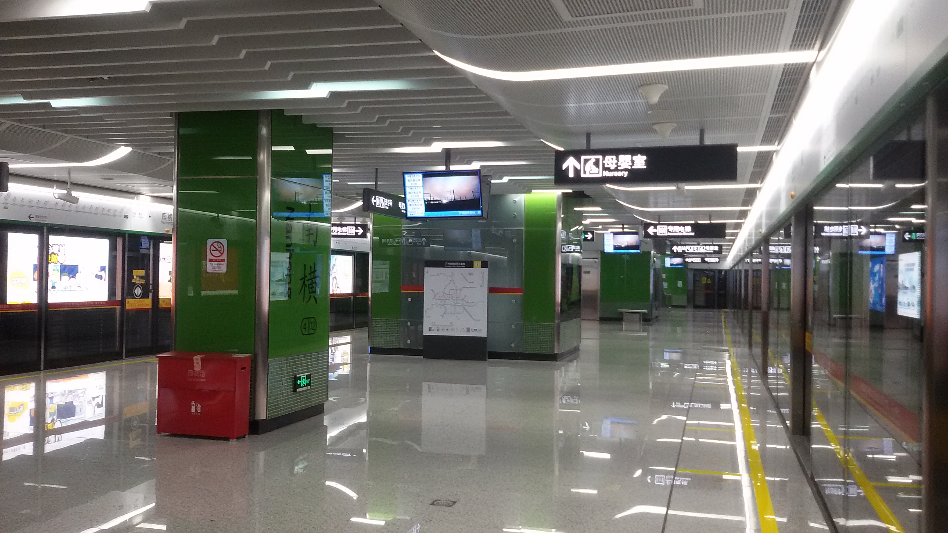 Station Platform for Nanheng Station in Guangzhou Metro.